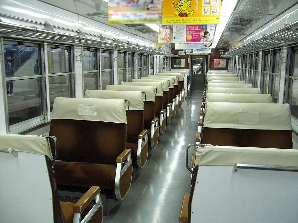 Interior of JNR 117 series train